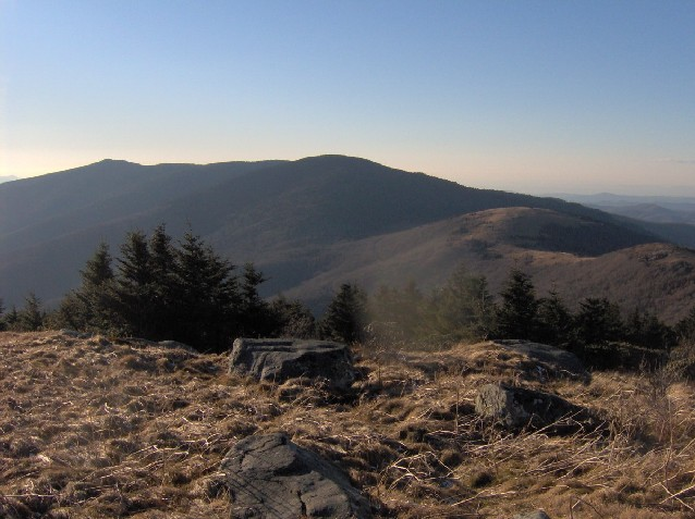 Roan Mountain, looking west from Grassy Ridge Bald. Roan High Knob is the high peak at the center. Roan High Bluff is the peak to the left of High Knob, in the distance. Grassy Ridge, with Round Bald and Jane Bald, is the yellow-brown ridge snaking across the botton-right.